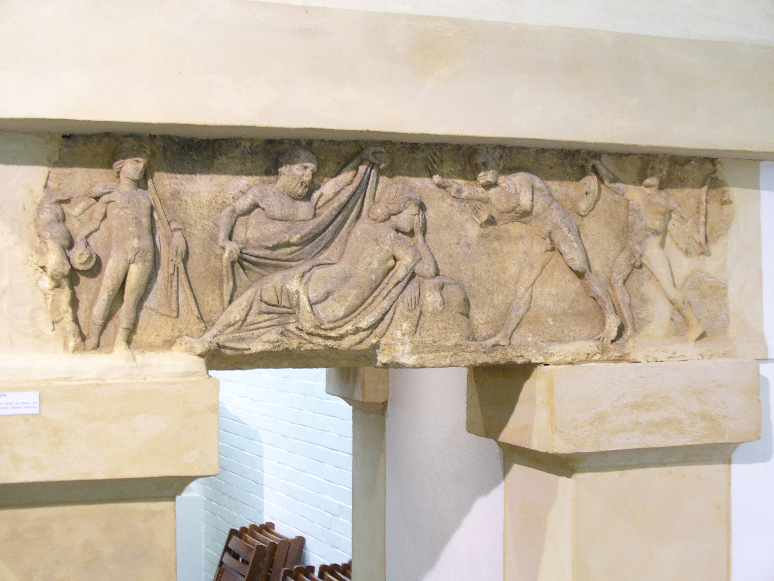 Relief on the mausoleum of Vervicius in Treveran country depicting Ariadne on Naxos, uncovered by Silenus on behalf of Bacchus.